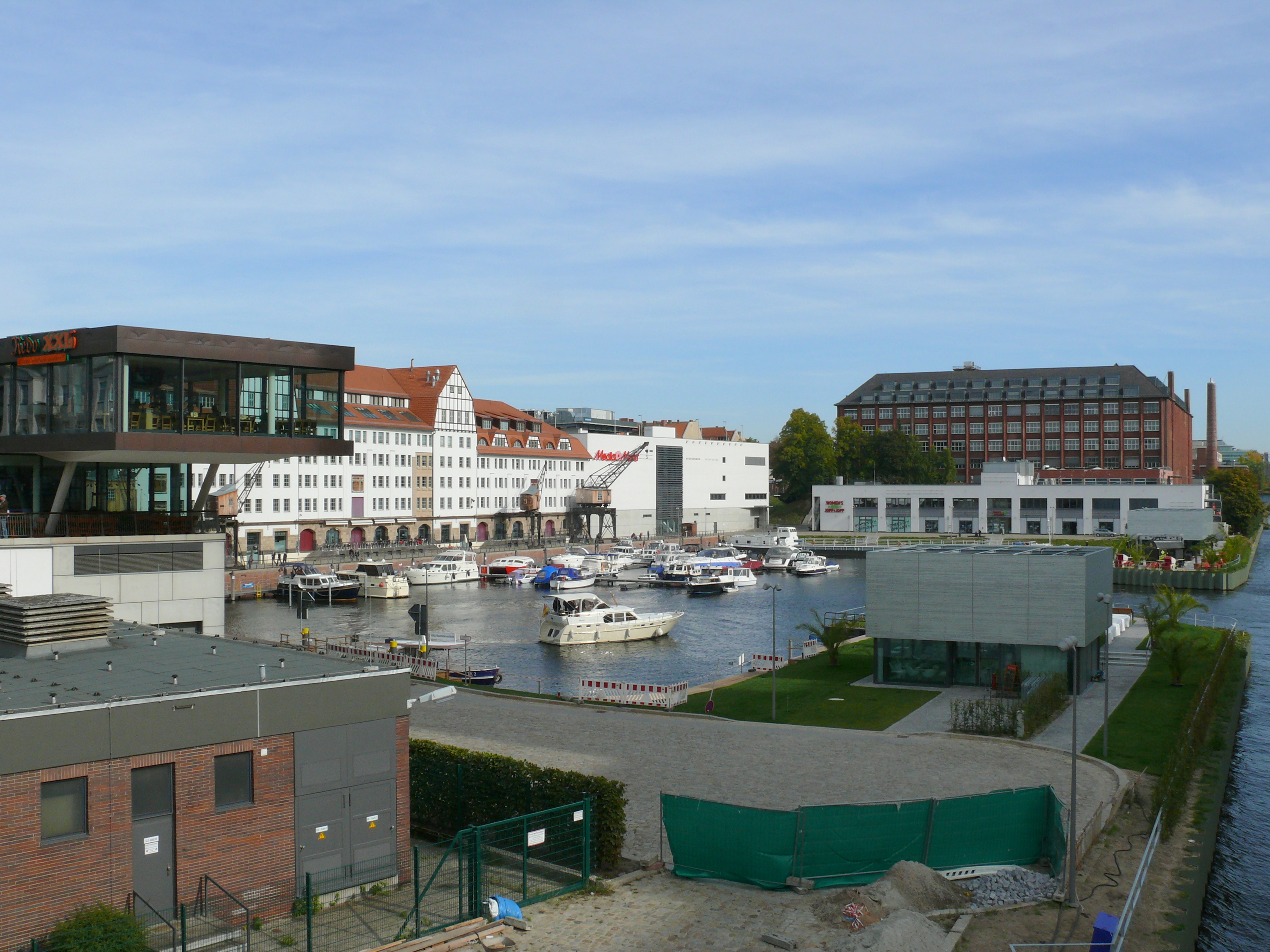 Berlin-Tempelhof Hafen Tempelhof